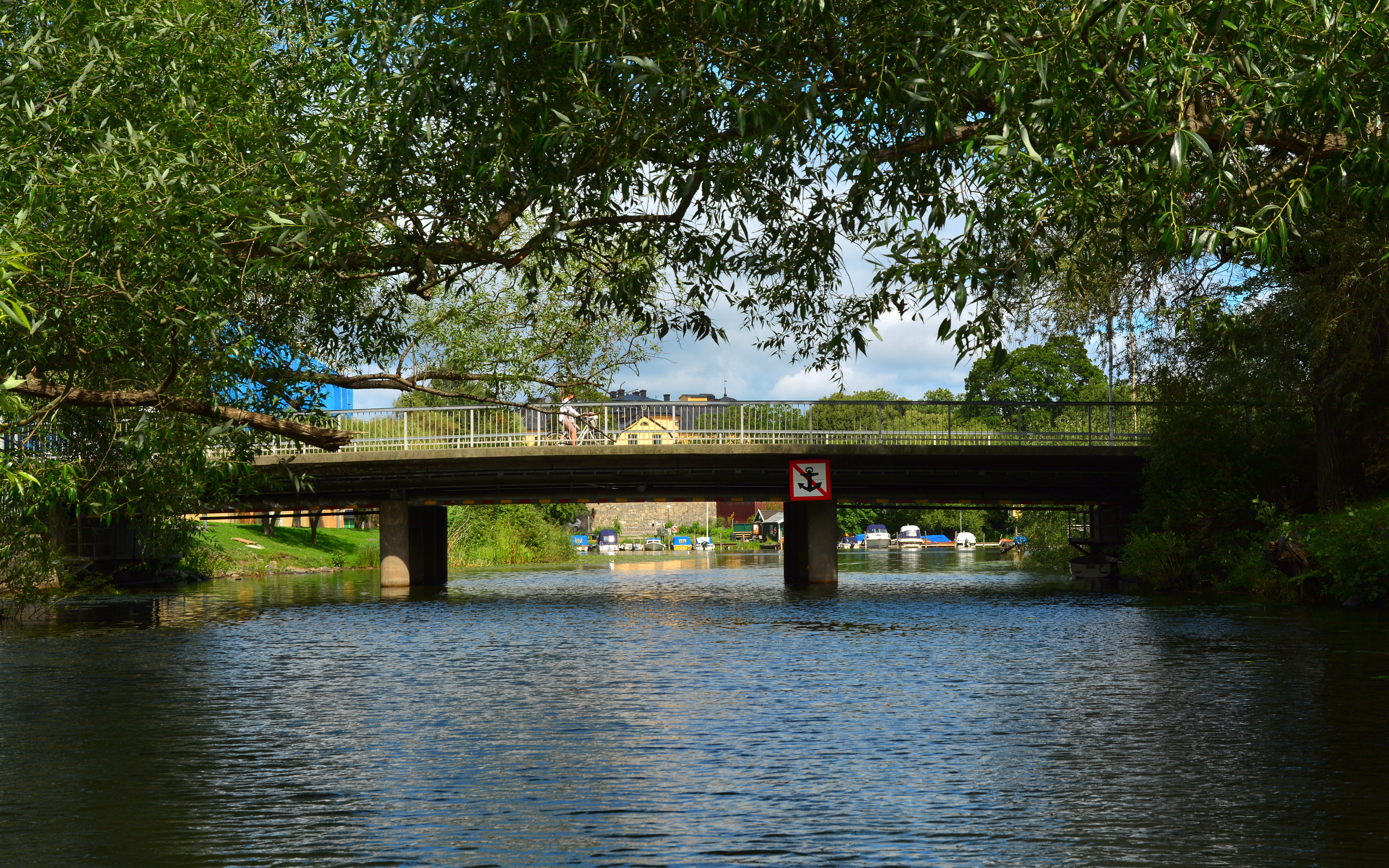 Reimersholm's bridge between Södermalm and Reimersholme in Stockholm, Sweden.